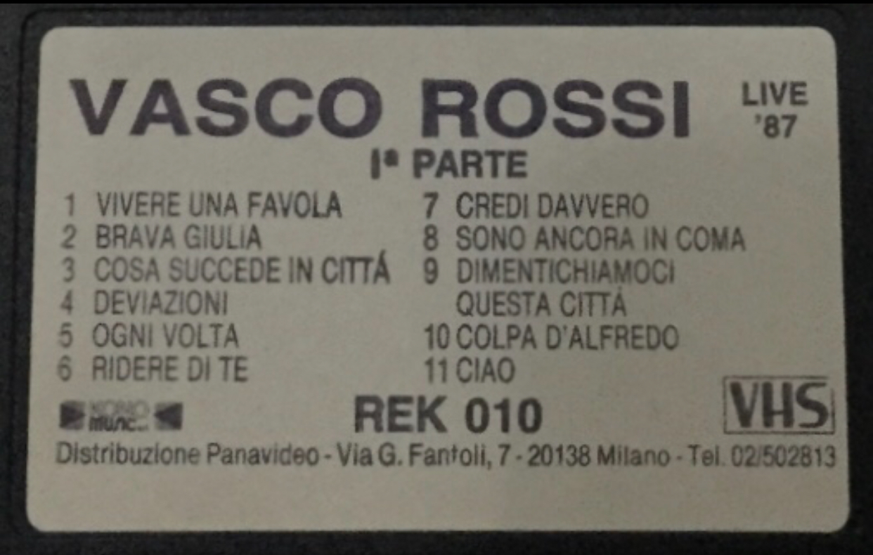 Picture of VHS label owned by me. Mainly reporting titletrack and distributor factory's name.